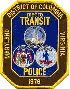 Patch of the Metro Transit Police Department (MTPD) until 2016.